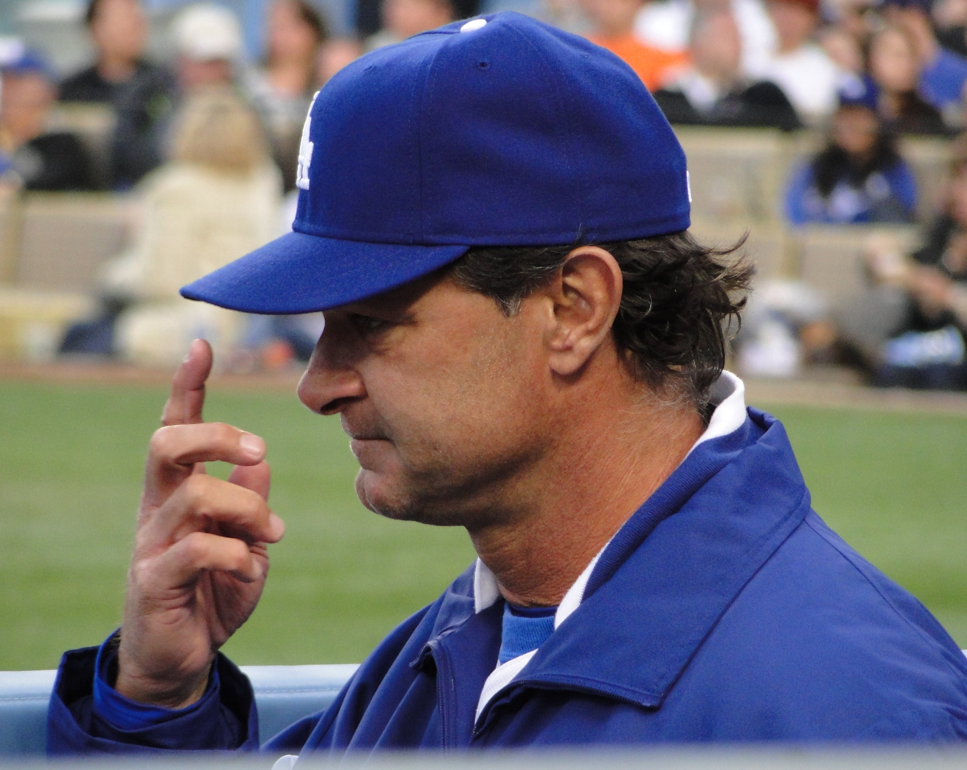 Don Mattingly in Dodgers dugout.